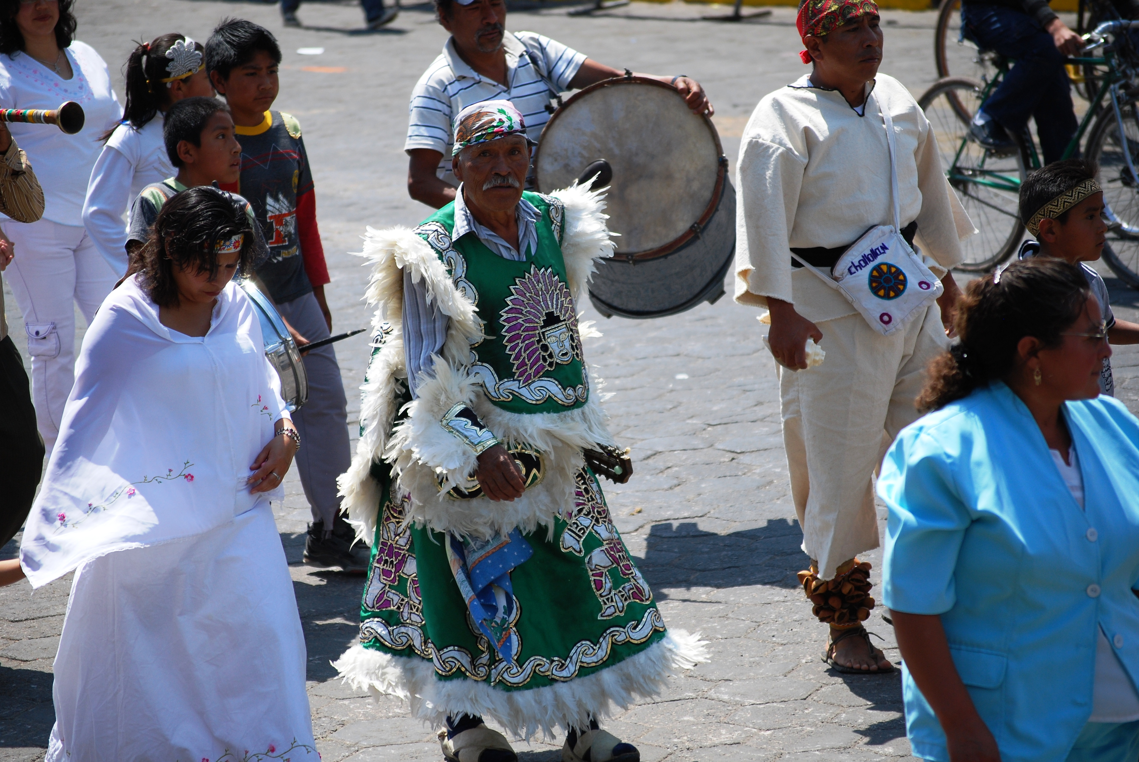 Older man in Aztec costume as part of the "Apache" group representing the pre Hispanic past at the Carnival of Huejotzingo, Puebla, Mexico